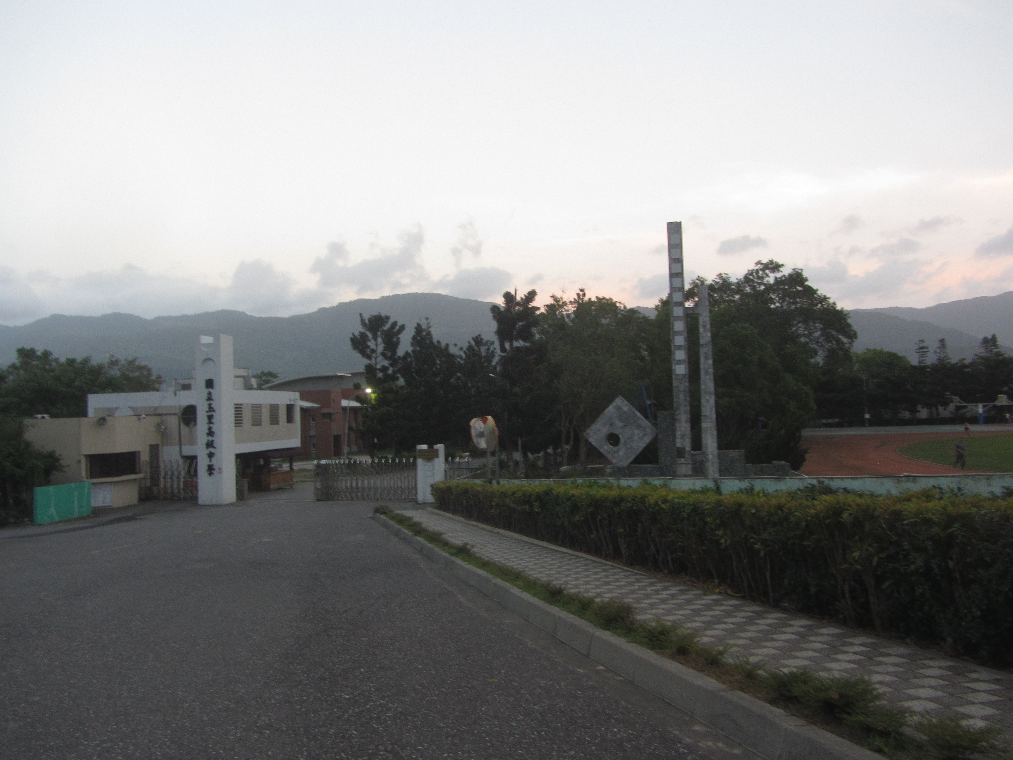 National Yuli Senior High School